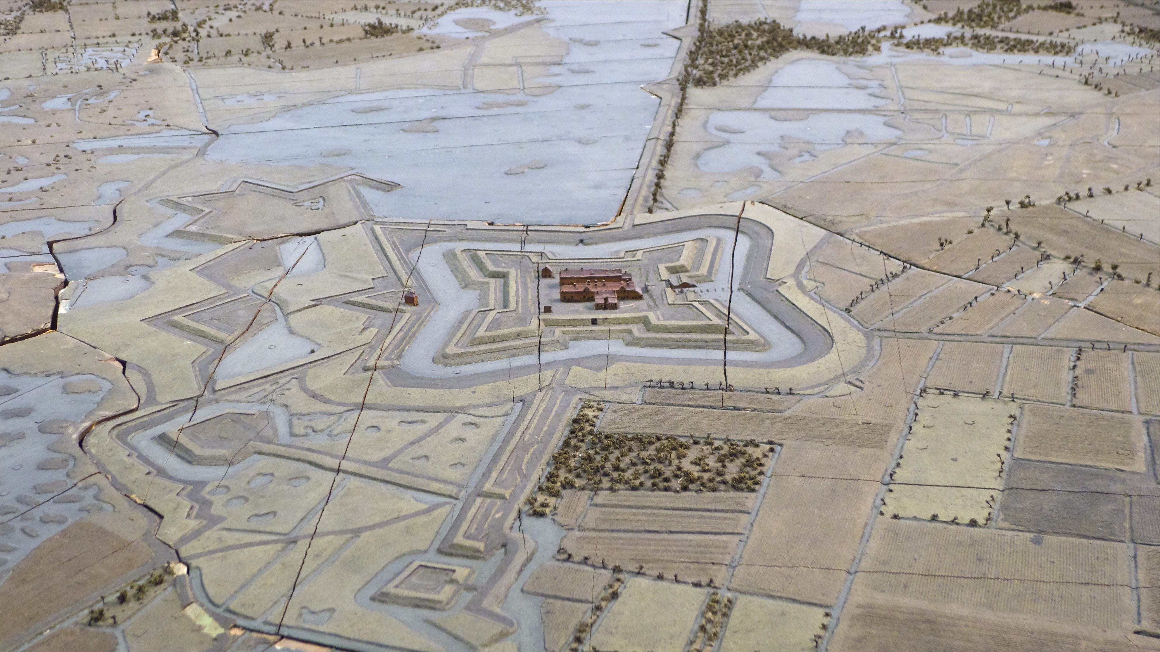 Fort de Roovere. Detail from the plan-relief of Bergen op Zoom built in 1751 under the direction of Nicolas de Nézot (1699-1768). Scale 1/600e